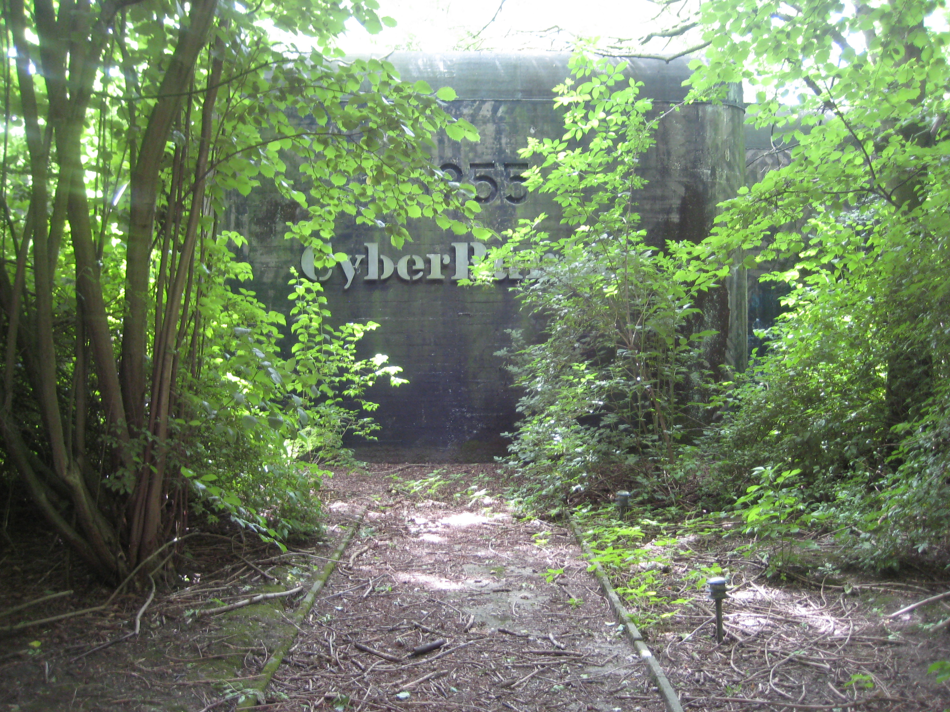 CyberBunker Entrance, Kloetinge